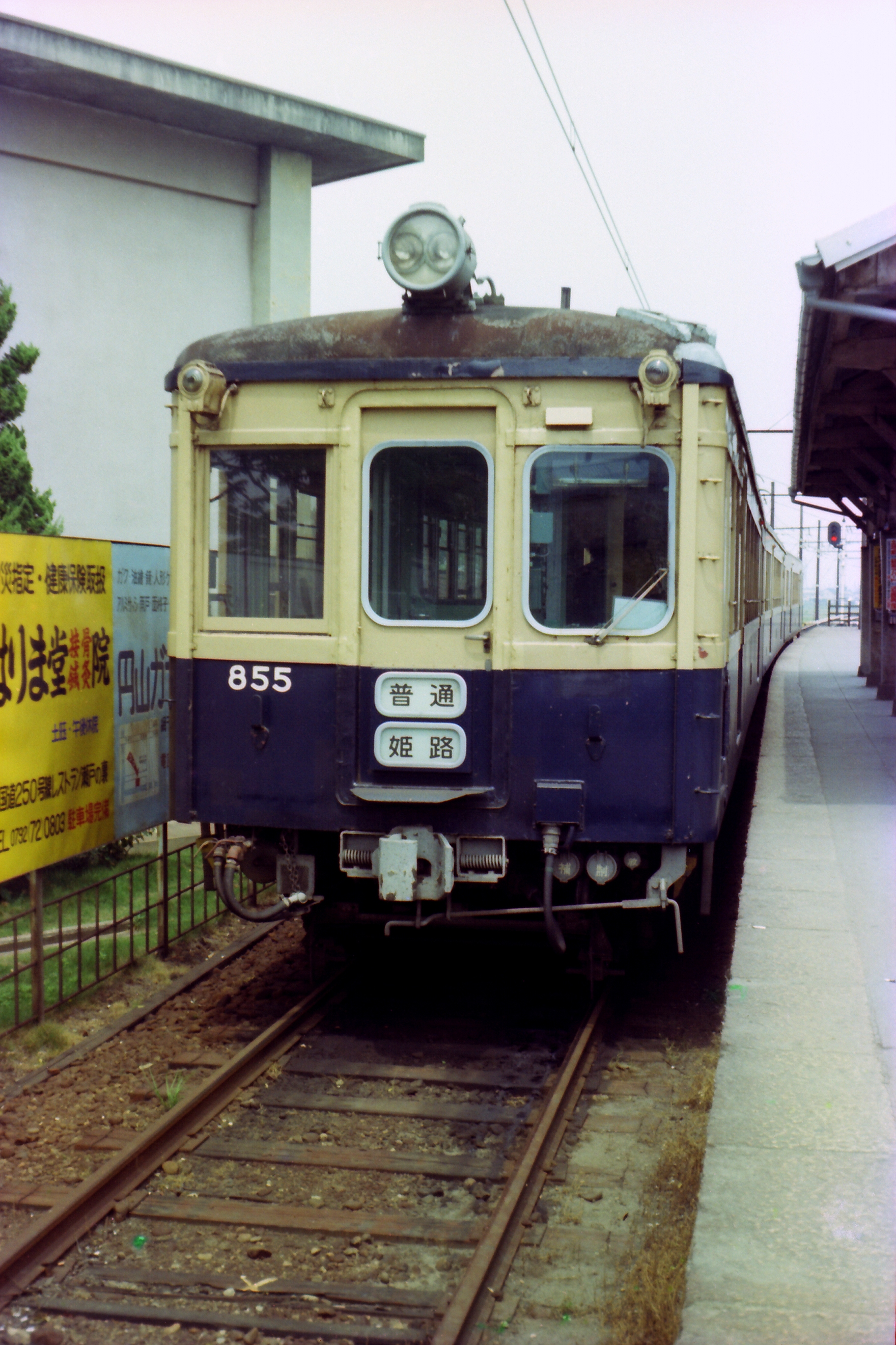 Sanyo Electric Railway 855 made in September 1950. This is my father's shot. I scanned the film faded ;) Minolta Uniomat with Rokkor 45mm F2.8 / Fujicolor / Canon CanoScan 5600F / Gimp 2.8.2 / Sigma Photo Pro 5.5.1